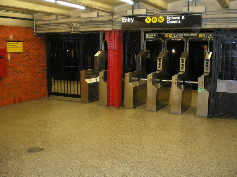 Entrance to the northbound platform of the 49th Street station at the BMT Broadway Line, Manhattan. This station underwent an experimental renovation program in October 1973, featuring contemporary red glazed brick walls, granite flooring, indirect lighting and soundproof ceiling. However, the upcoming oil crisis did not allow such modernization experiments any longer, and therefore this station remained somewhat unique.